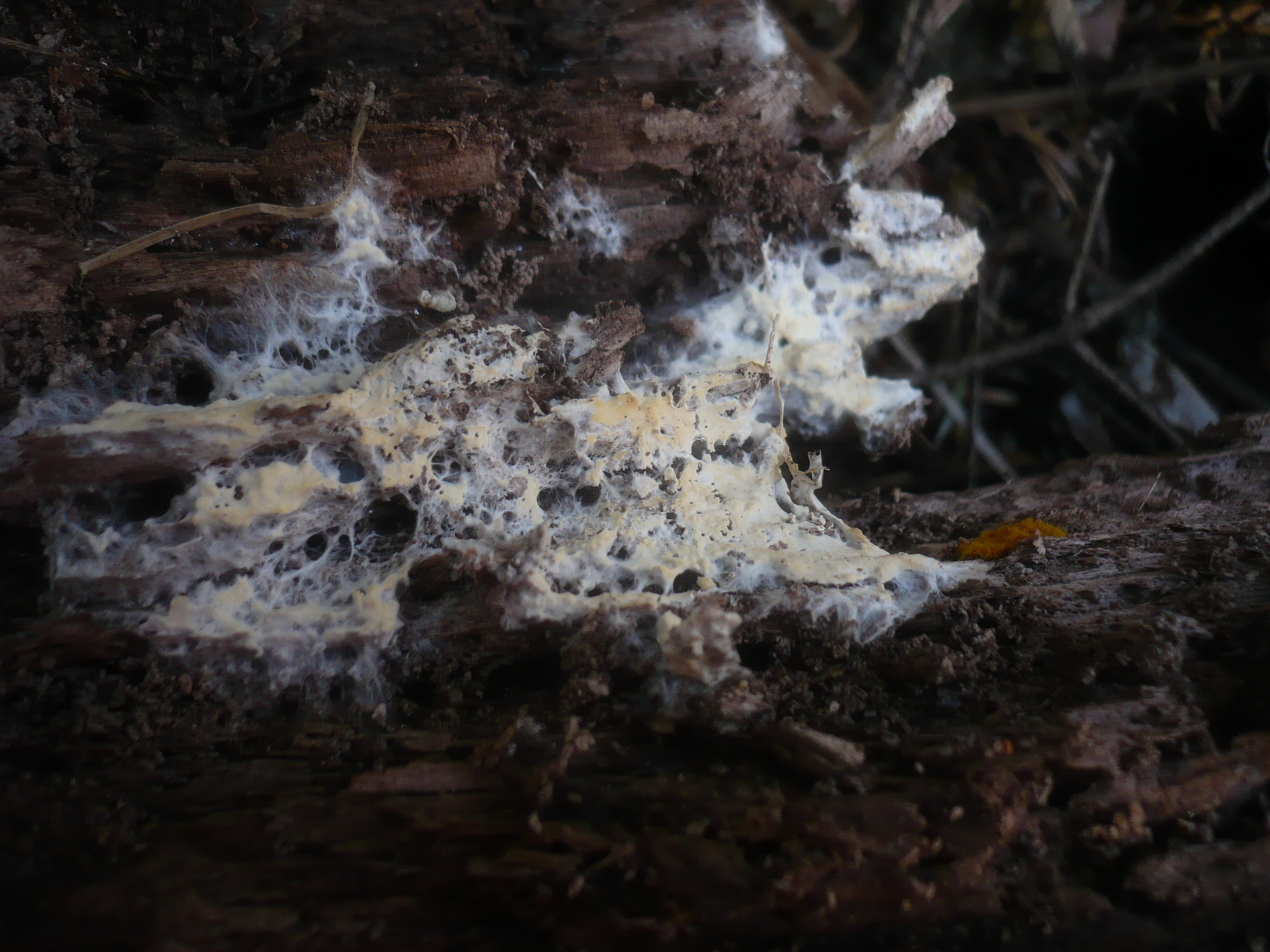 The crust fungus Gloiothele lactescens (Berk.) Hjortstam. Photographed in Willersdorf, Willersdorfer Schlucht, Bezirk Oberwart, Burgenland, Austria.